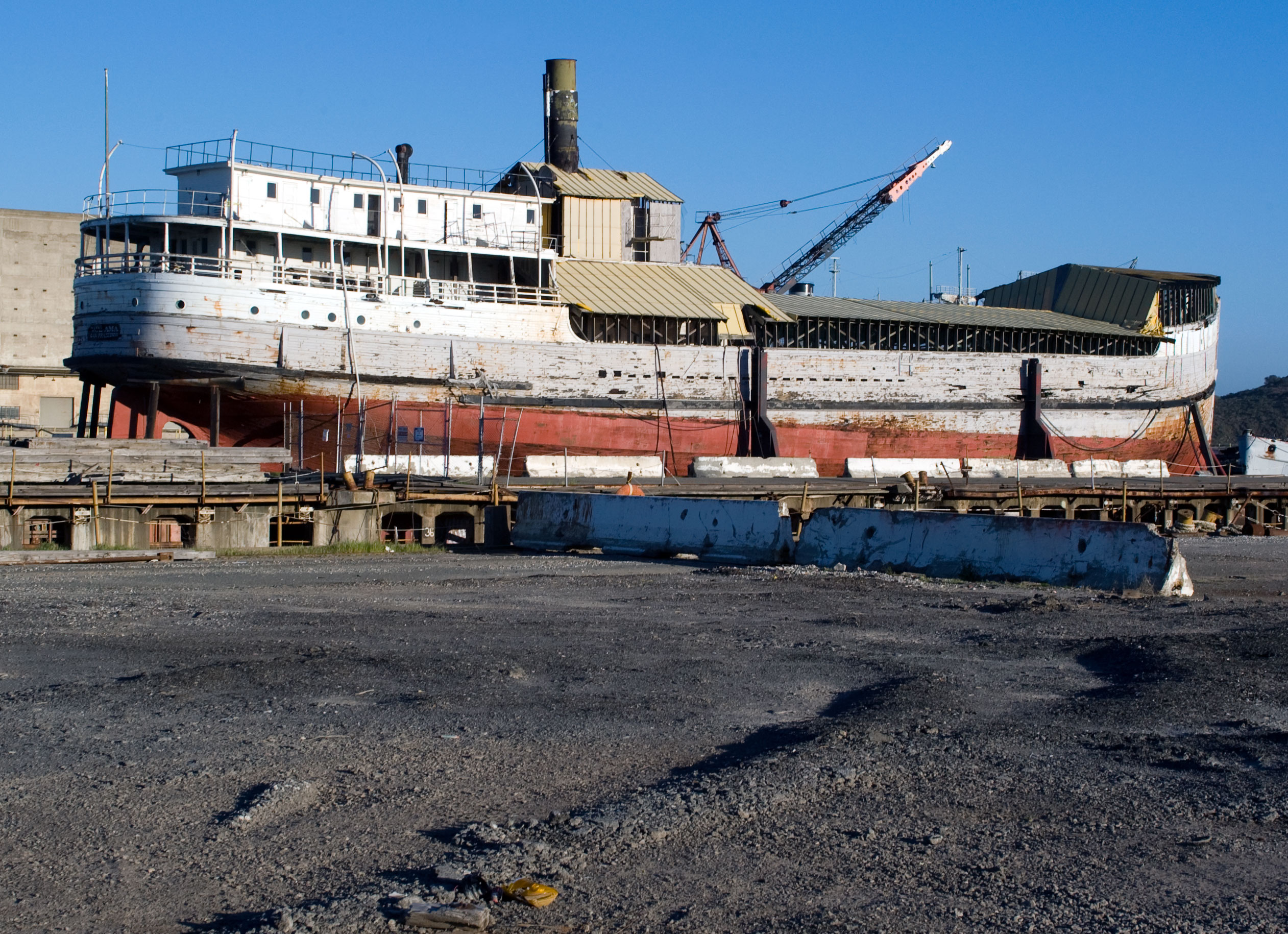 The 1915 steam-powered schooner Wapama is the last surviving example of this class of wooden ships used in Pacific Coast lumber trade in the 19th and 20th Centuries. The ship, which was designated a National Historic Landmark in 1984, is decaying in the Richmond, California Shipyard.